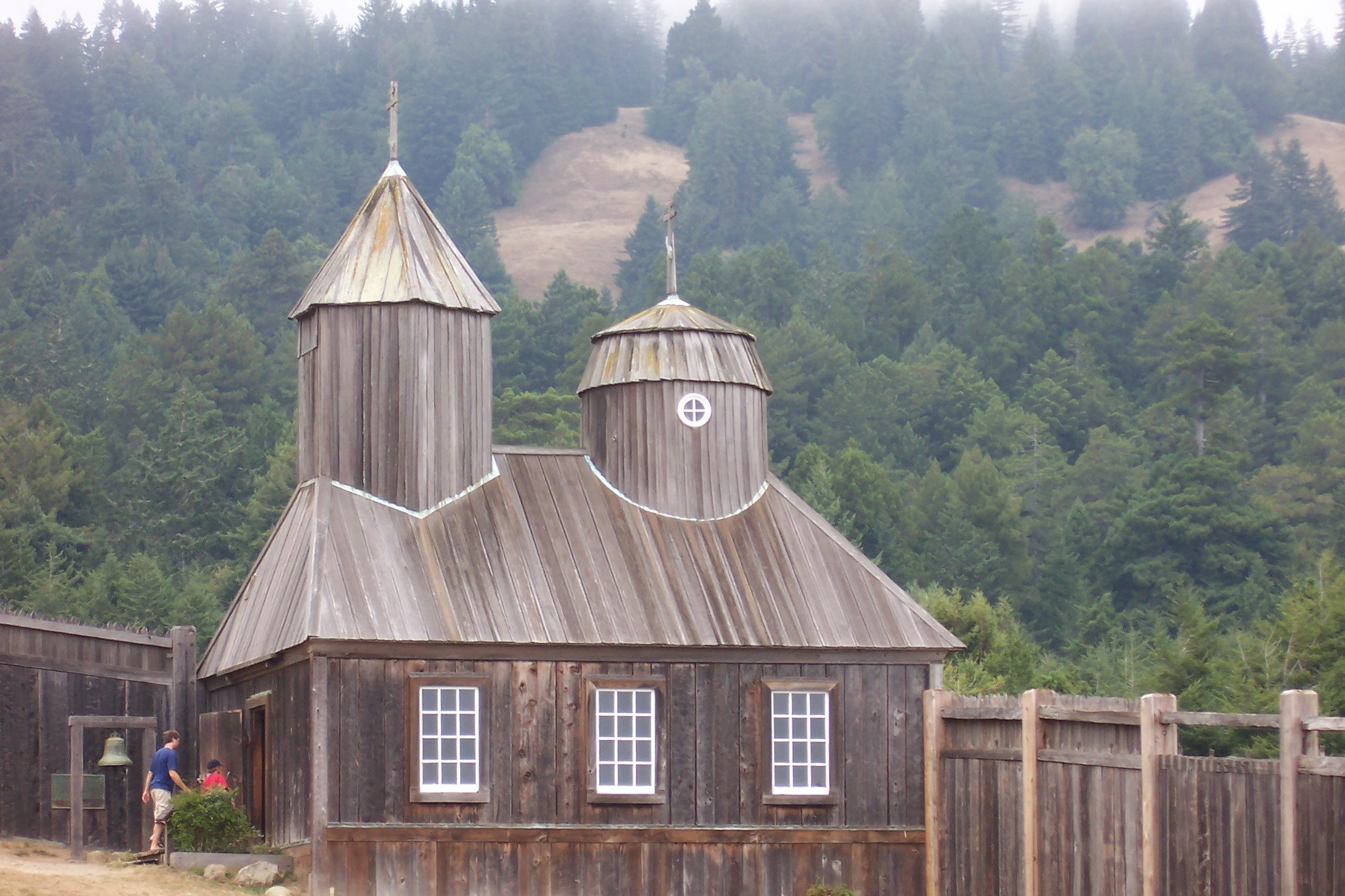 The chapel in Fort Ross (reconstructed), California, USA. Fort Ross is the US National Historic Landmark of history of Russian colonization of America.